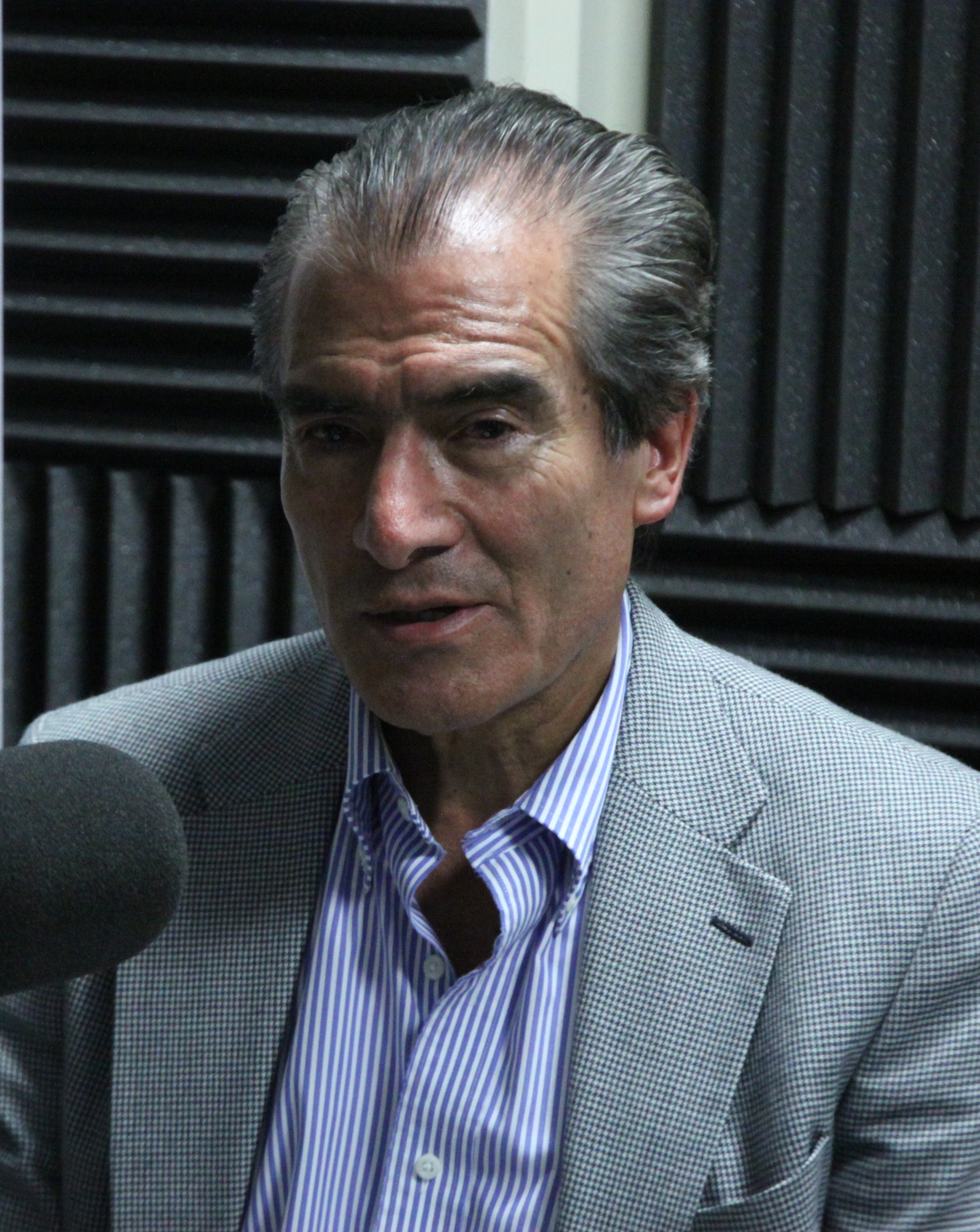 Foto: Hugo Ortiz Ron / Asamblea Nacional. Cropped from File:Entrevista en la Radio de la Asamblea Nacional al expresidente de la Legislatura Marco Landazuri (6338750036).jpg